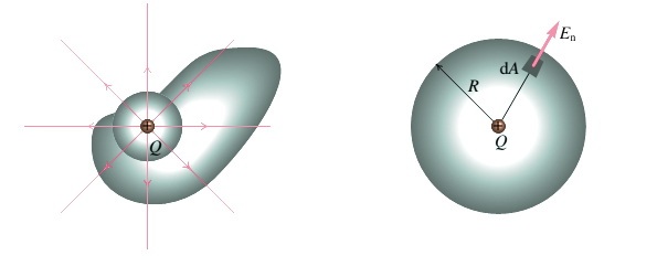 Fluxo de cargas pontuais222 (7)